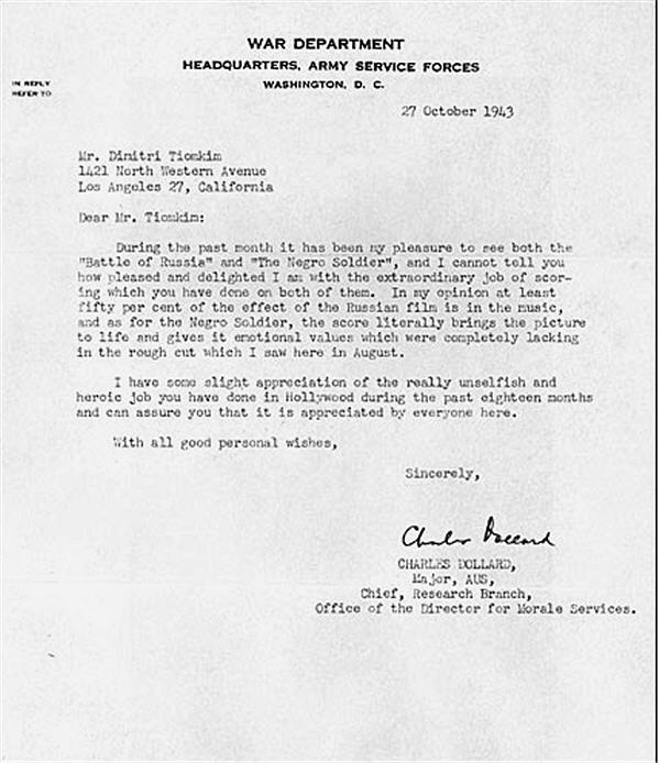 U.S. Army letter to Dimitri Tiomkin